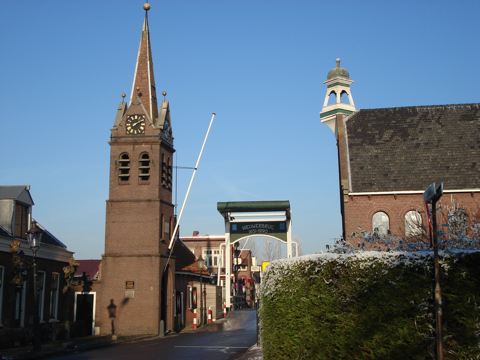 Church on the right, Bell-tower on the left and toll bridge in the centre of Nieuwerbrug, South Holland.